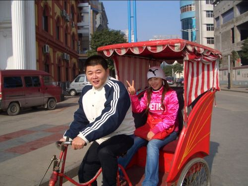 Ricksaw in China